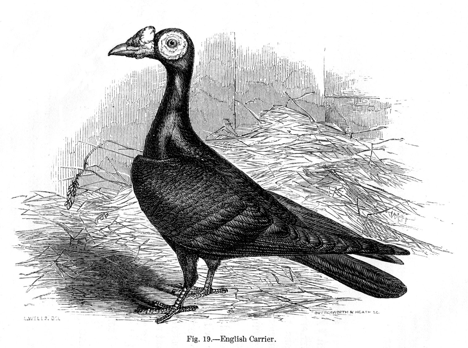 Figure 19 - "English Carrier" from Charles Darwin's book Variation of Animals and Plants Under Domestication published in 1868.